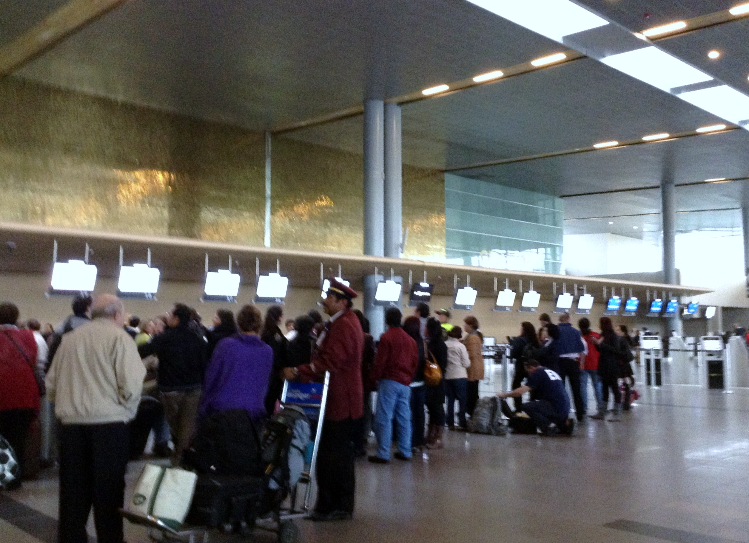 El Dorado International Aiport